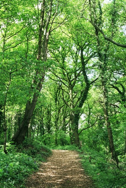 Norcot - Lousehill Copse. Just when you were thinking that this square was utterly dreary, you find Lousehill Copse. Unlike some local authorities, Reading didn't flatten everything in sight to built its overspill housing. Many pockets of woodland were left behind and managed for recreation. It's one of Reading's hidden secrets.